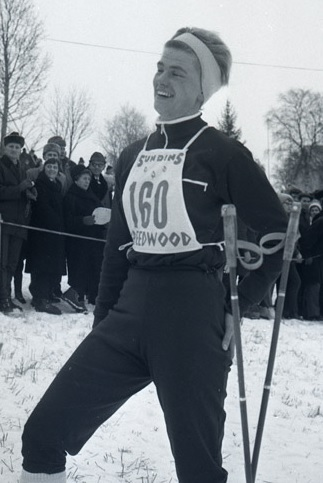 Swedish cross-country skier Barbro Martinsson at a local competition in Bergsjö, Sweden.